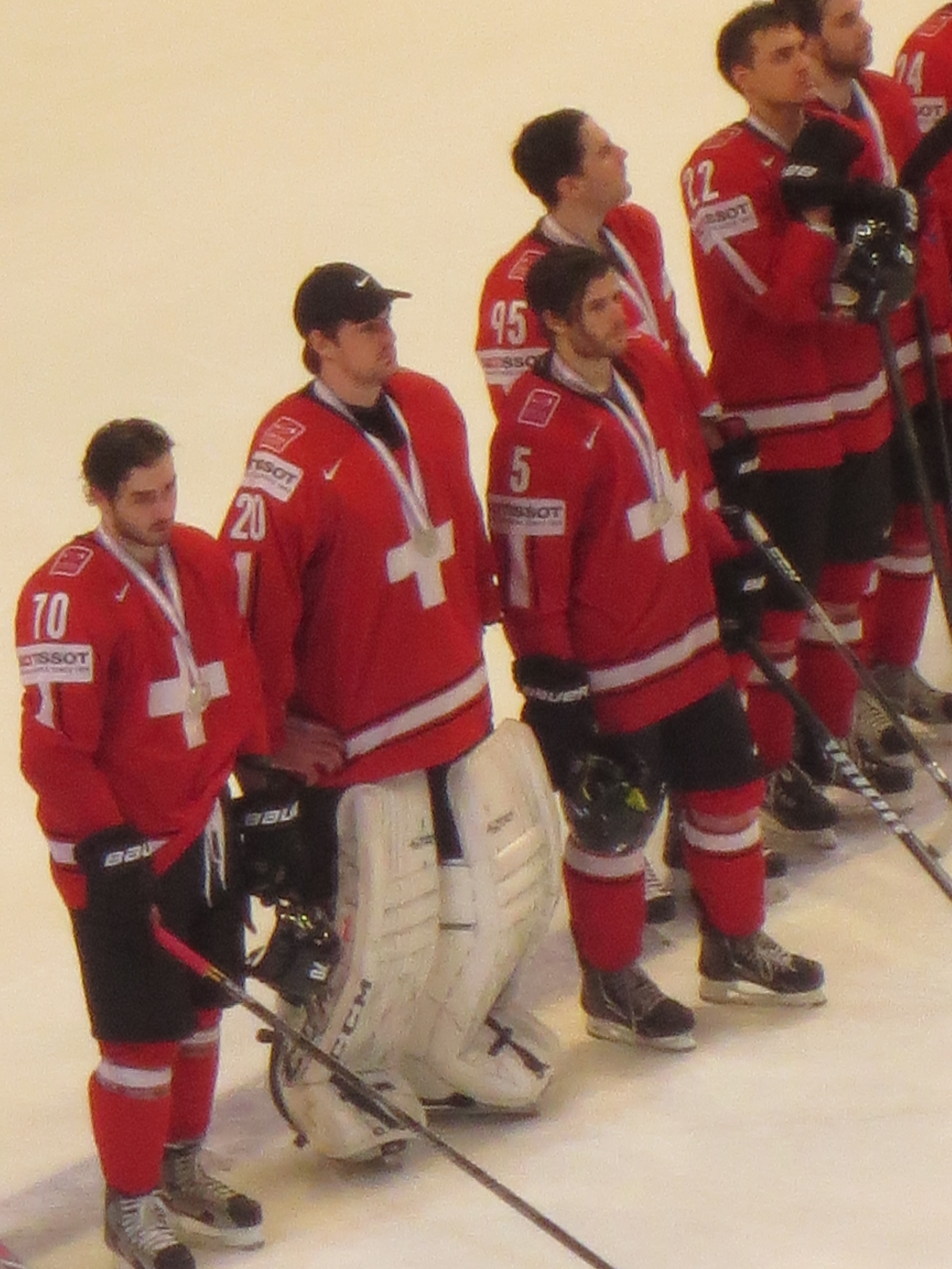 Denis Hollenstein, Reto Berra, Severin Blindenbacher, Julian Walker and Nino Niederreiter with their silver medal after the 2013 IIHF World Championship Final.